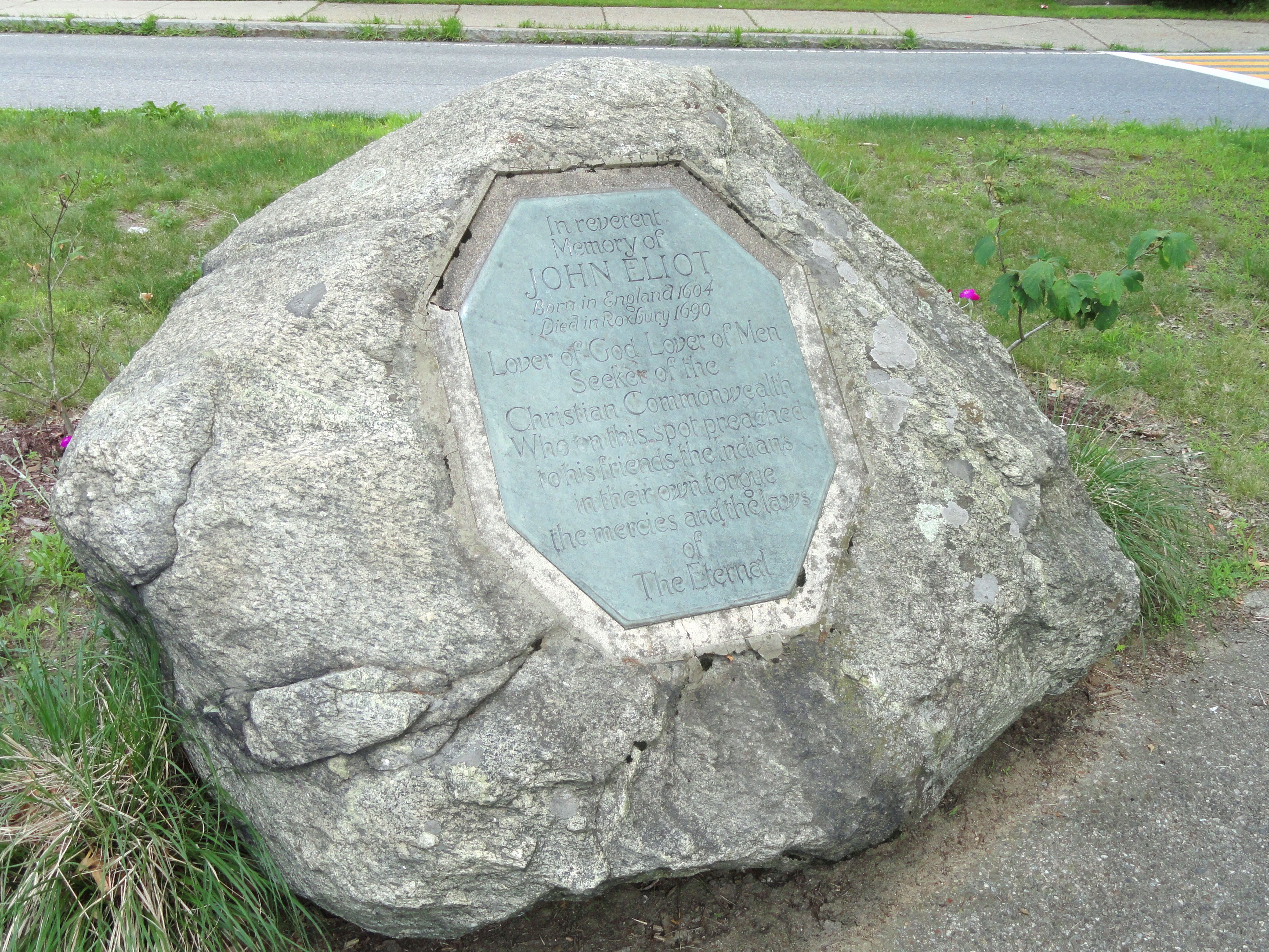 John Eliot marker, near the Eliot Church of South Natick, Pleasant Street, Natick, Massachusetts, USA.